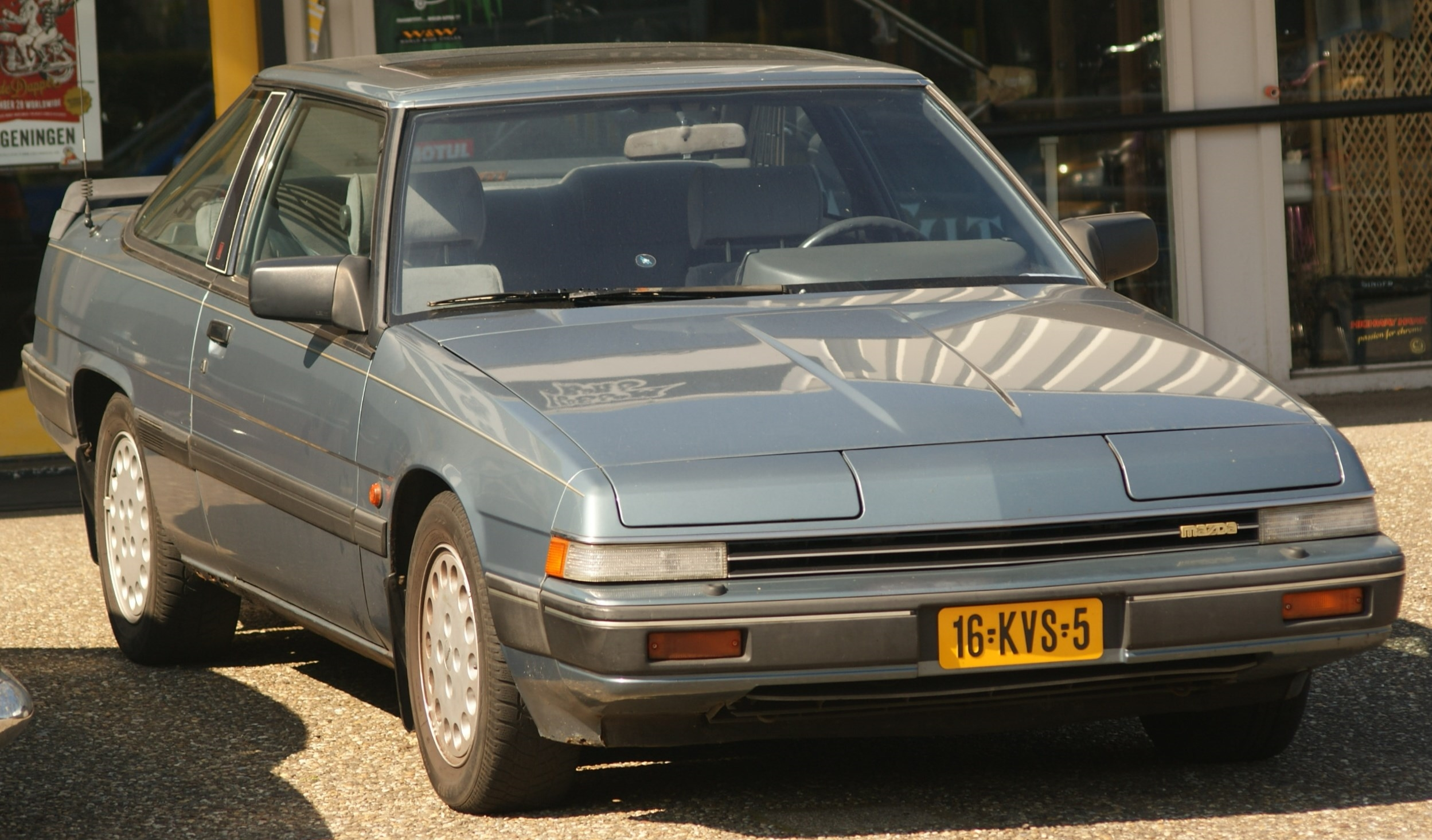 16-KVS-5 Custom Corner, Ede